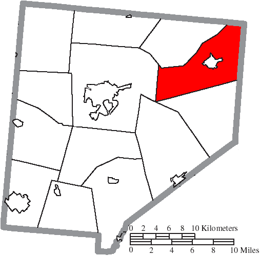 Map of the municipal and township boundaries of Clinton County, Ohio, United States, as of the 2000 census, with the location of Richland Township highlighted. Township borders are shown only in unincorporated areas in order to differentiate incorporated and unincorporated areas more clearly.